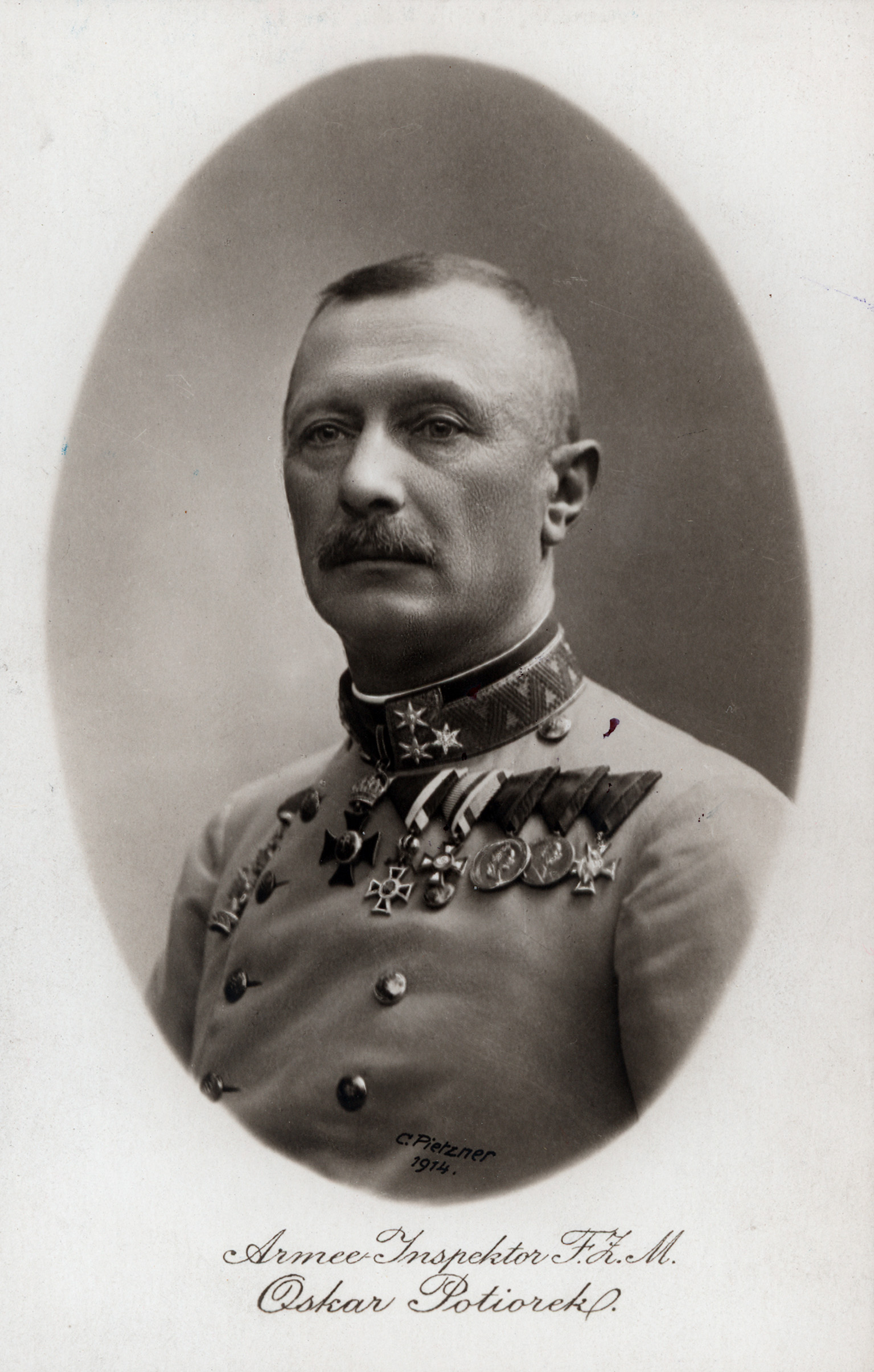 Oskar Potiorek (20 November 1853 – 17 December 1933) was an Austrian general who served as the Austro-Hungarian governor of Bosnia and Herzegovina between 1911 and 1914.